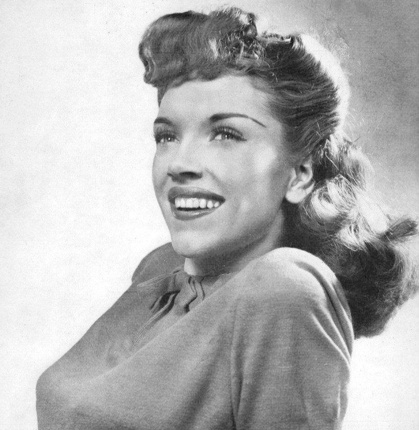 Photo of singer Ella Mae Morse from the cover of Metronome magazine, May, 1944.